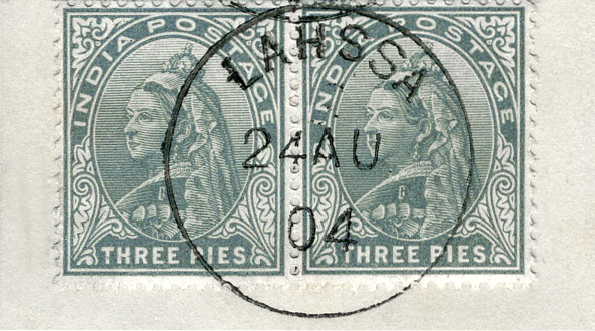 Pair of British India stamps with "Lahssa" (read Lhasa) cancel dated 24 au(gust) (19)04 (Lhasa was occupied by Francis Younghusband's expeditionary force on August 3rd).